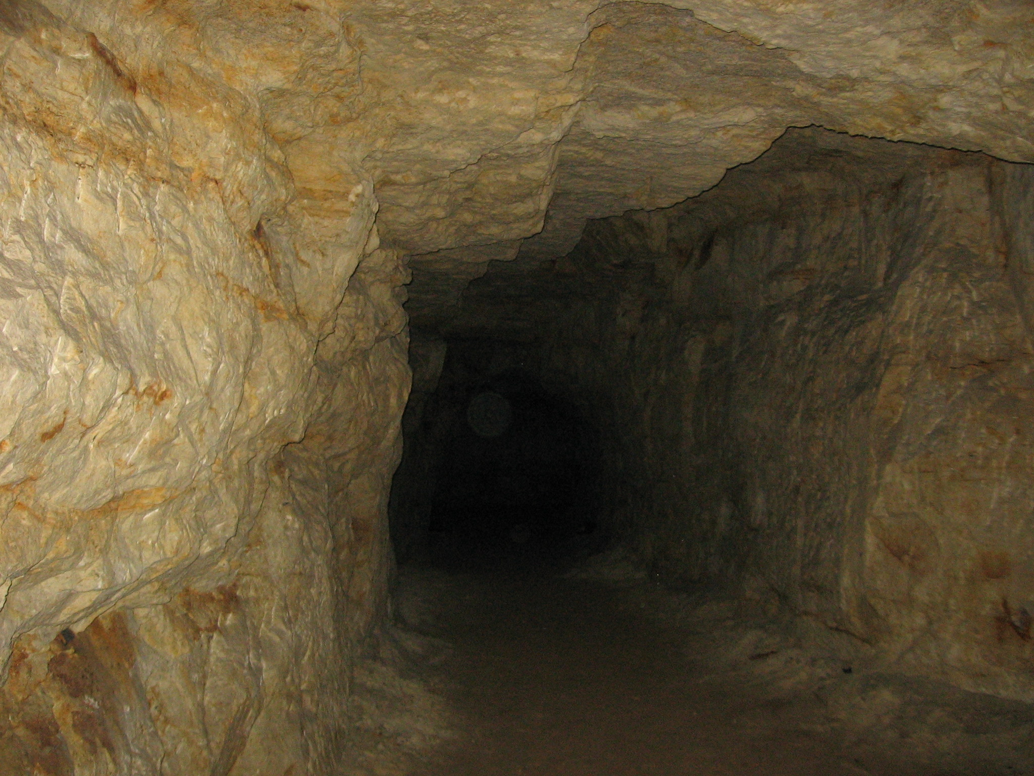 Rabštejn Underground Factory - unfinished tunnel in Werk C (near Česká Kamenice, Czech Republic)